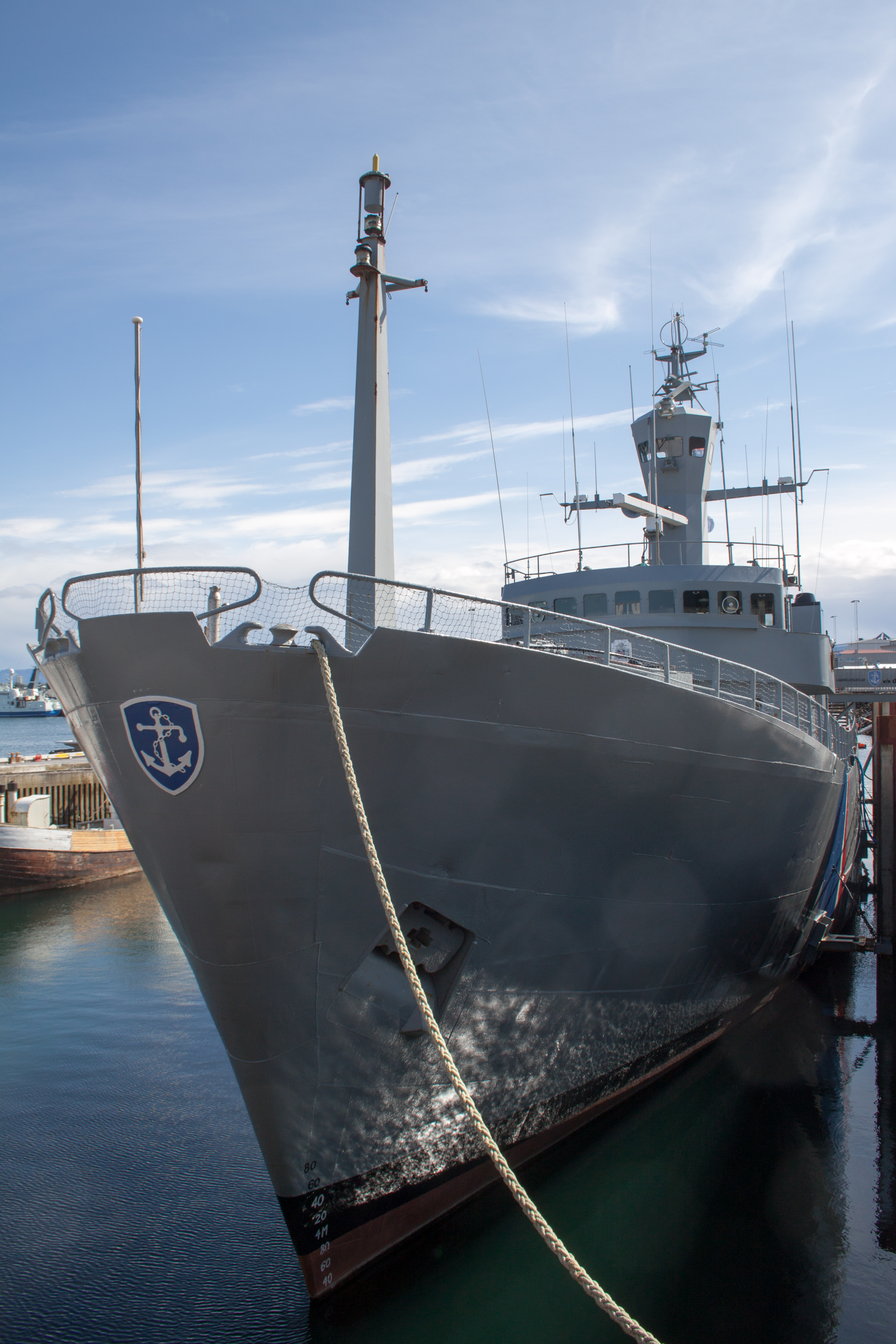 ICGV Óðinn in the Víkin museum